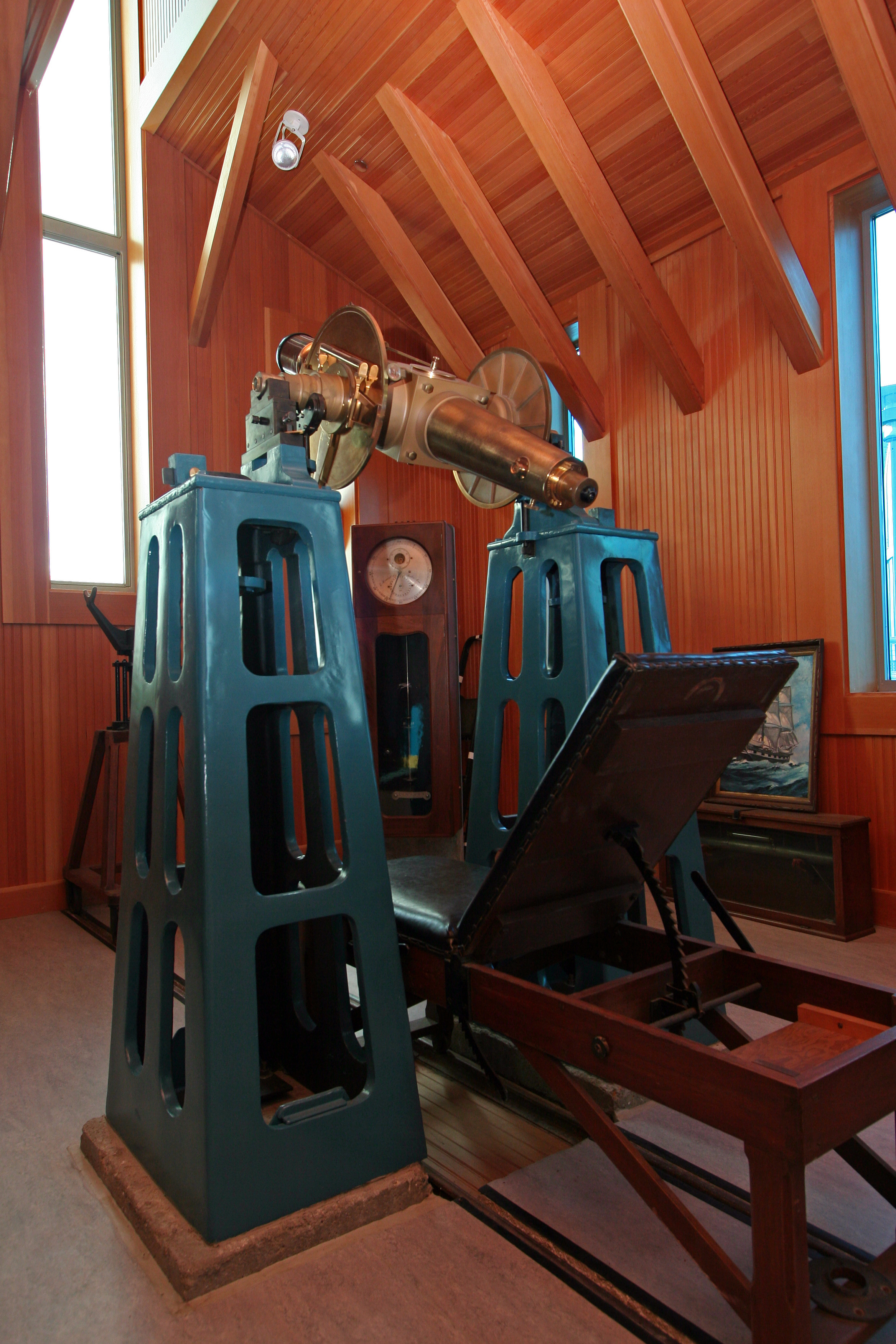 Chabot's meridian transit telescope Type - Transit telescope Maker - Fauth & Co., 1885 Aperture – 4 inches Focal Length – Mount – Double Pier Transit Usage Intent – popular and educational use / time determination Chabot Space and Science Center's meridian transit telescope, built by Fauth, 1885. Note the observer's chair between the piers, and the narrow opening in the wall and roof for access to the sky. Because the telescope observes only in the meridian, no rotating dome is necessary.